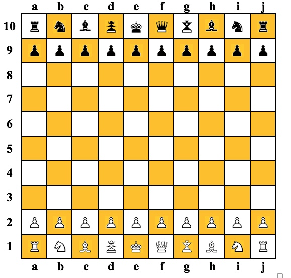 Chess 100